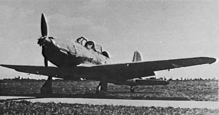 An Arado Ar 96 trainer aircraft in Germany, in 1945. It wears Hungarian markings.